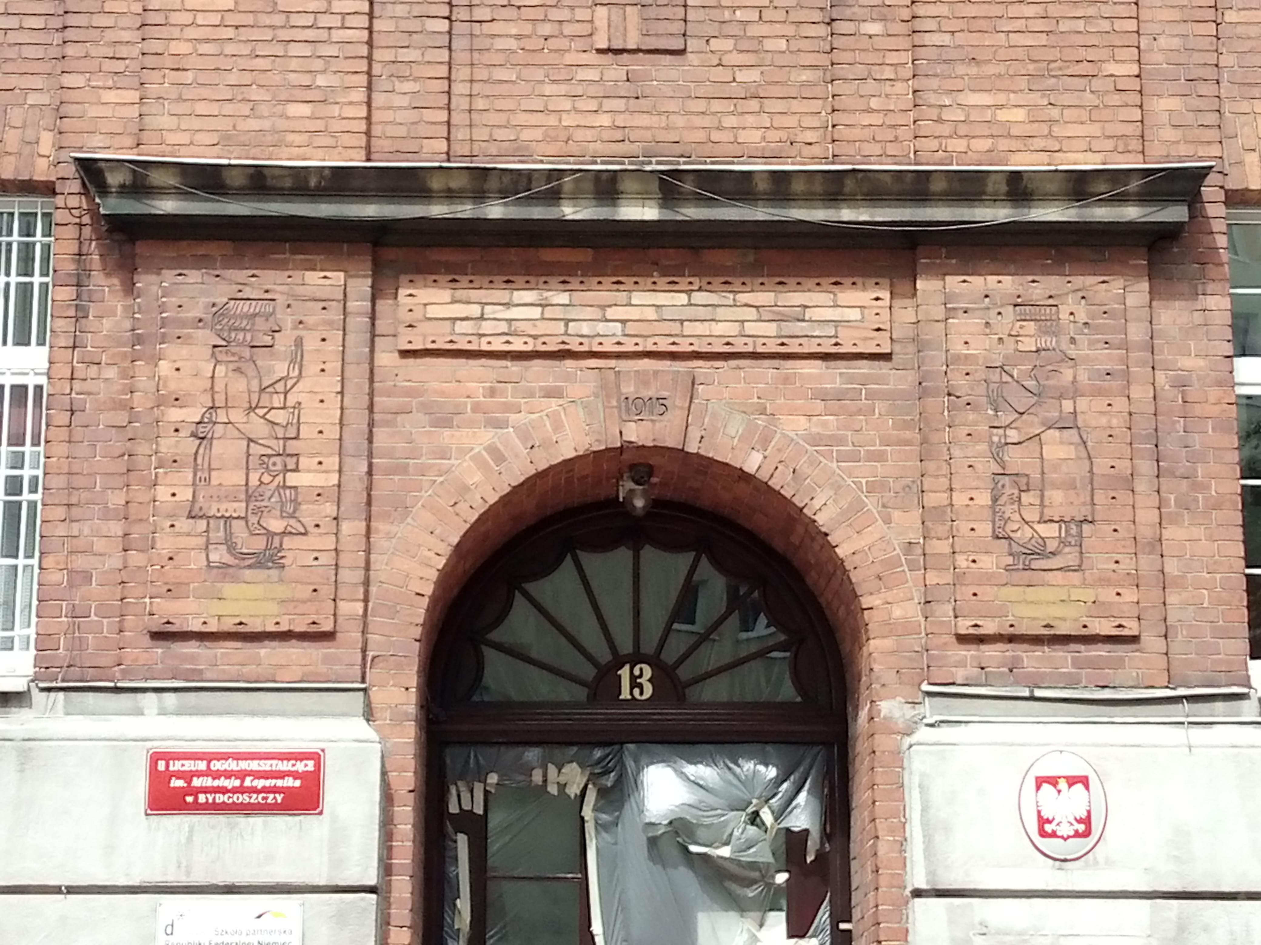 Portal lyceum N2